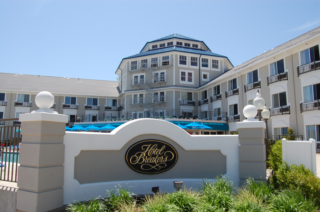 This is a view of Hotel Breakers in Sandusky Ohio